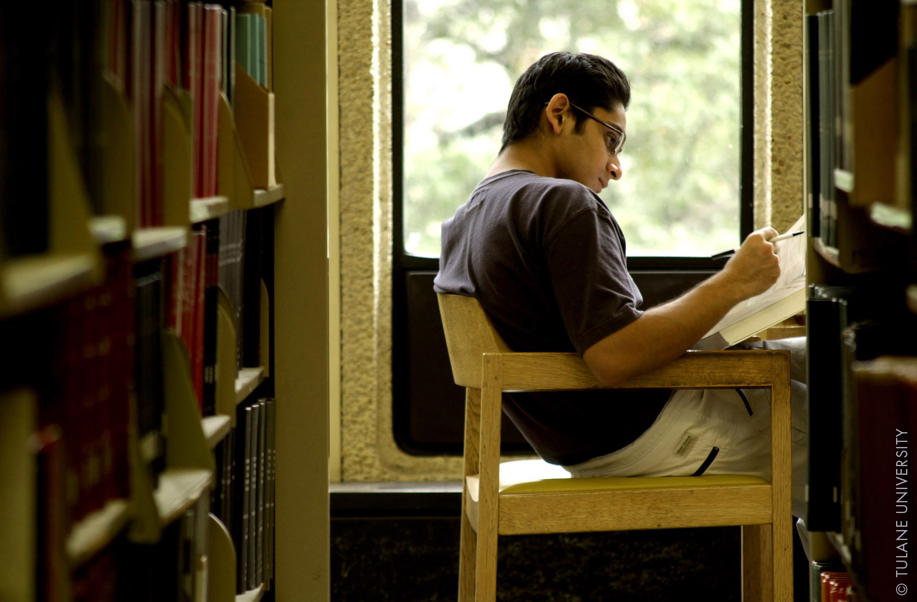 Library Window